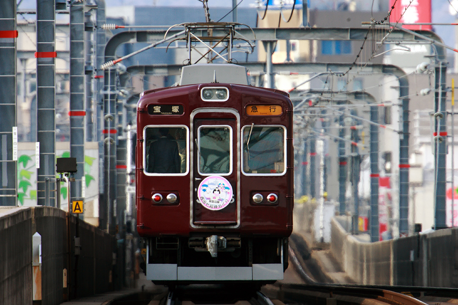 Hankyu Railway 3000 Series EMU